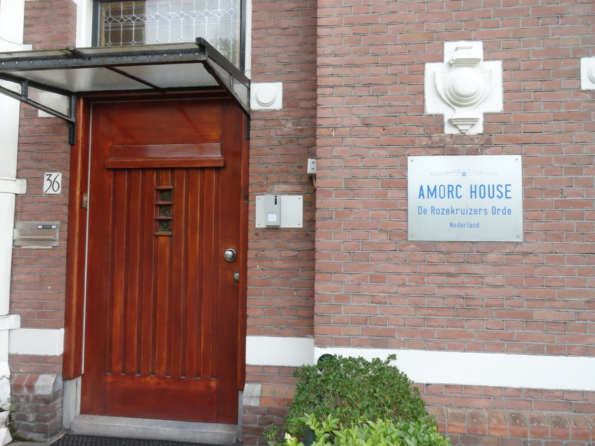 A.M.O.R.C. House in The Hague of the Rosicrucian Order, the Netherlands